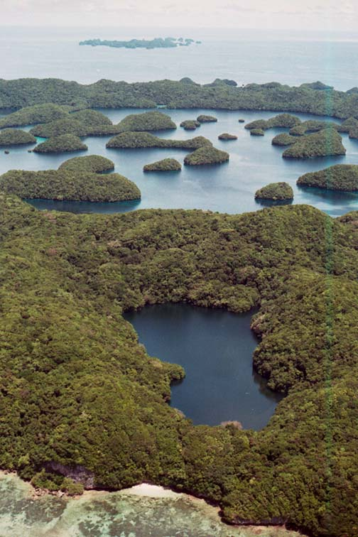 Aerial view of Jellyfish Lake on the island of Eil Malk in Palau. This view is looking west across the lake, past some small coral and rock islets around Eil Malk, and toward the Seventy Island Preserve, which is some 11.5 km (7 miles) distant.